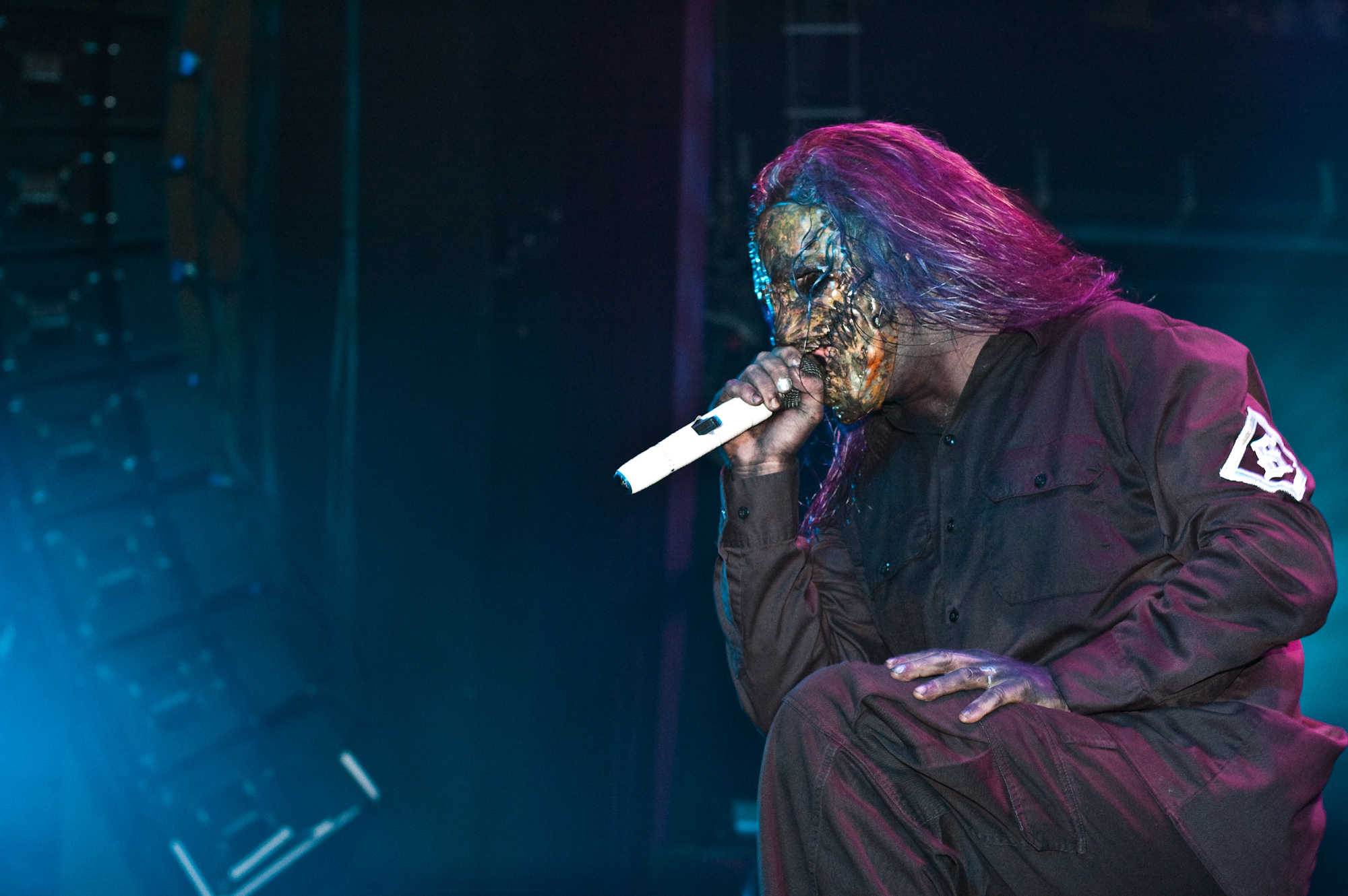 Vocalist Corey Taylor performing in metal band Slipknot in 2005.